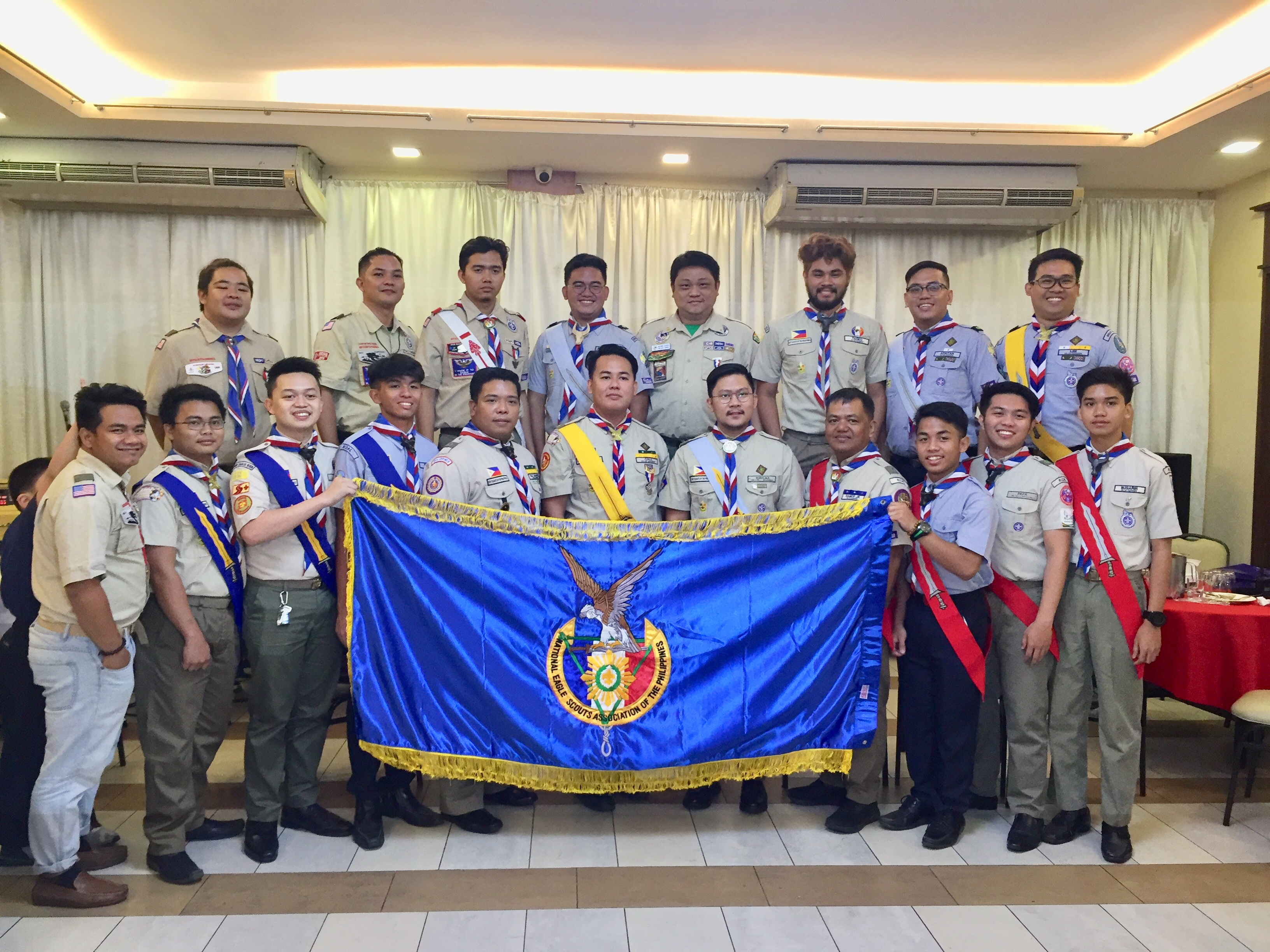 Gathering of Eagless NESAPh